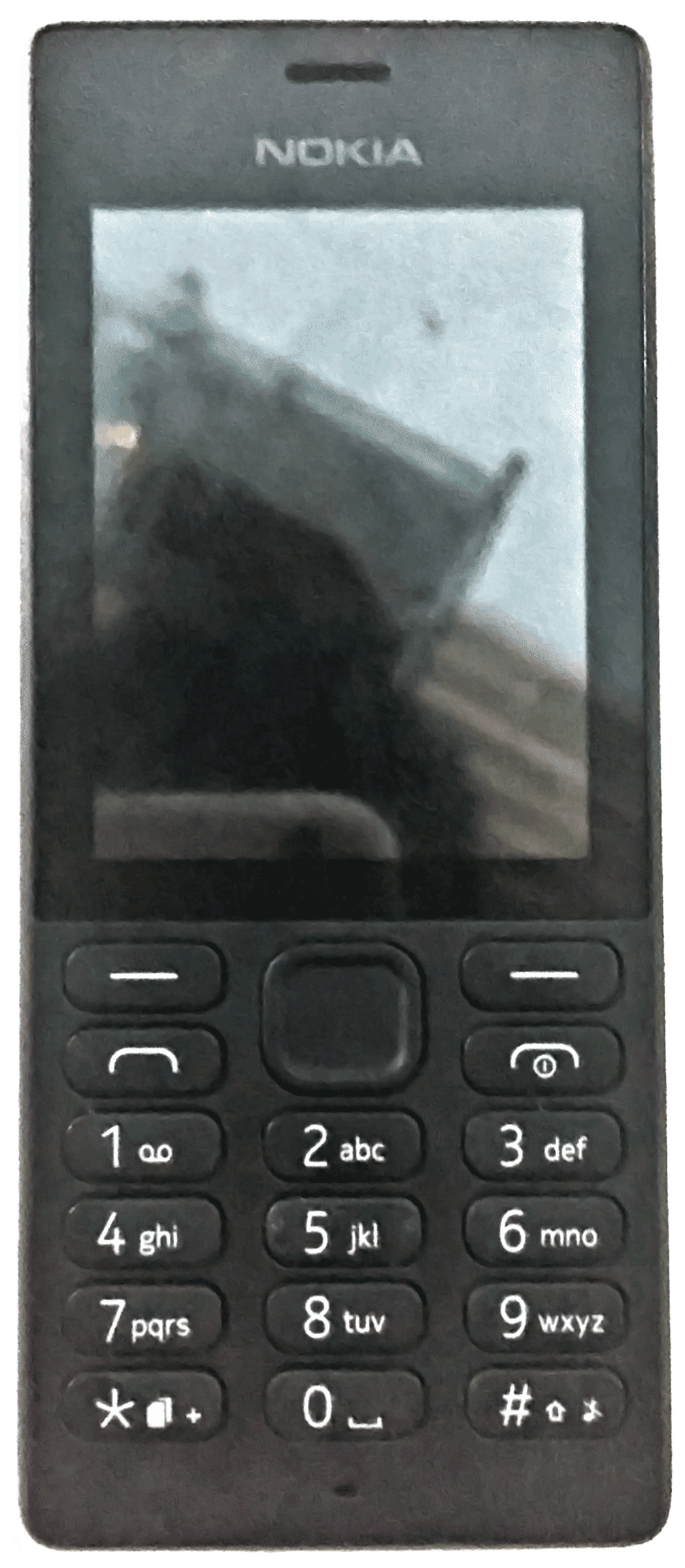 Nokia 150 transparency